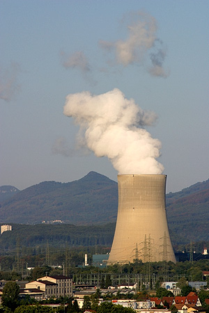 Cooling tower of the Gösgen Nuclear Power Plant seen from Niedergösgen